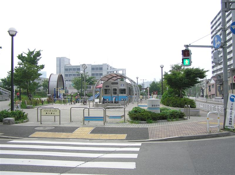 Preserved Tokyo Metro 5000 series car in Shin-Suna Ayumi Park in Koto-ku, Tokyo